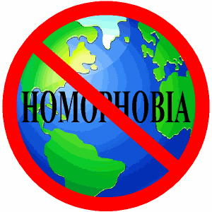 No Homophobia logo